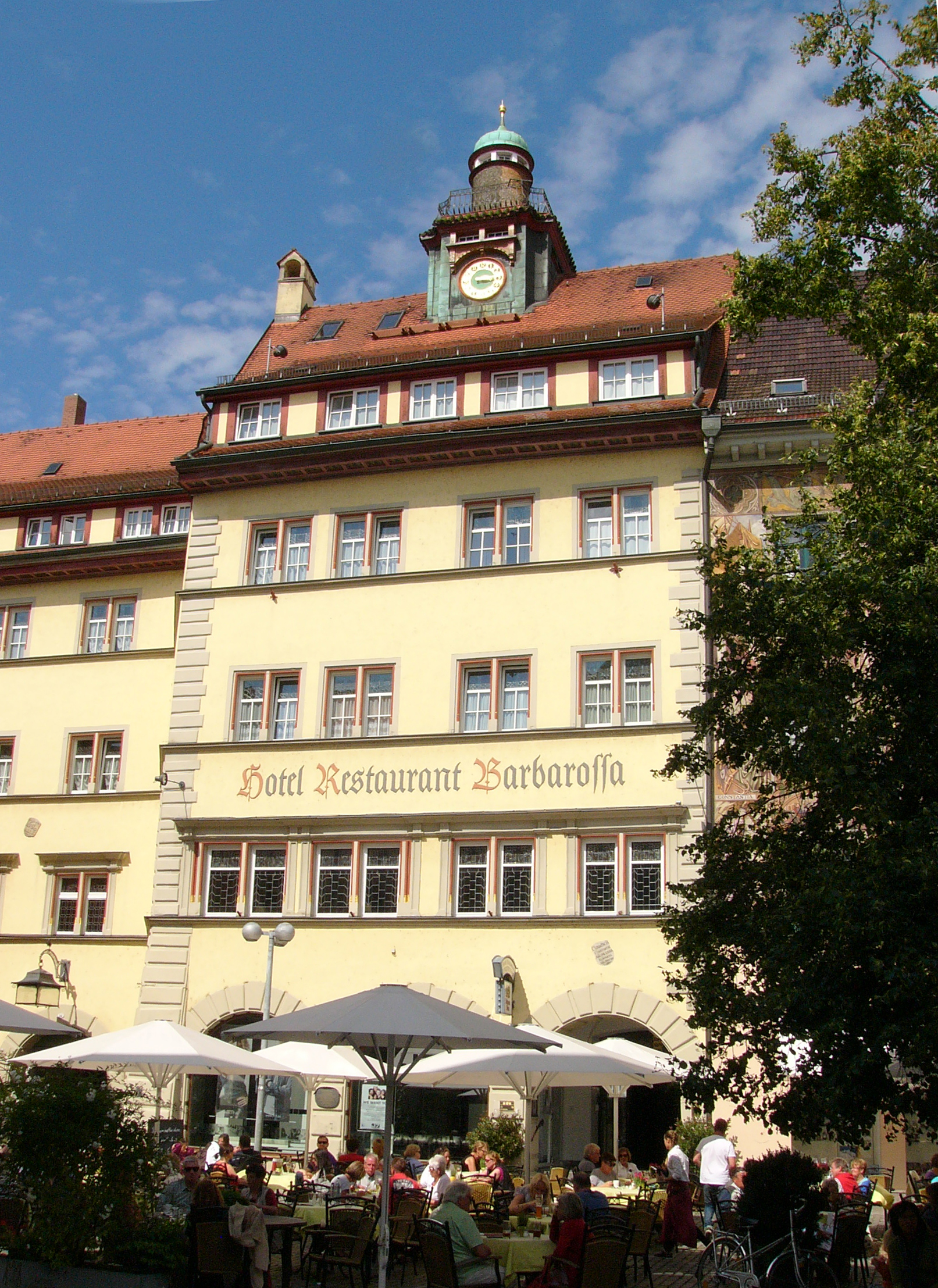 Old City of Constance, Germany - Obermarkt